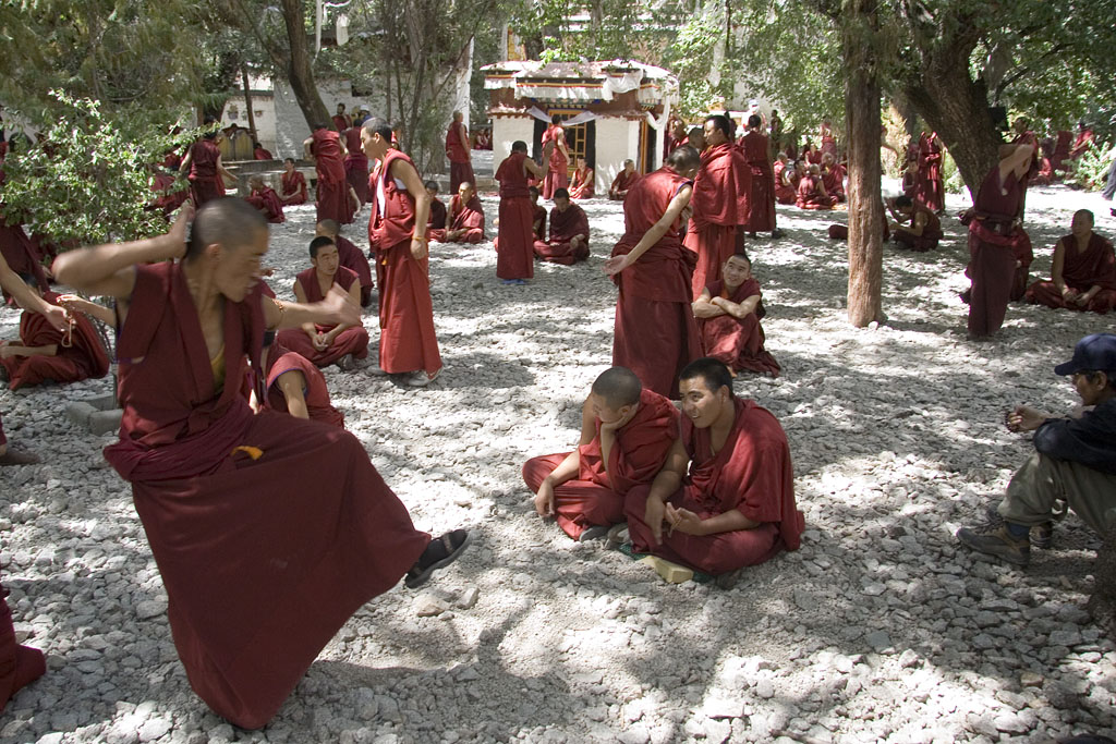 Tibet: Monks practicing their debating skills following afternoon meditation in Sera Monastery. Sera housed more than 5,000 monks before the Chinese invasion in 1959. It now houses a few hundred Buddhist monks